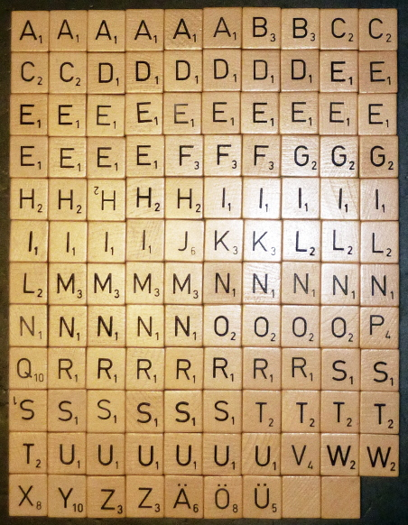 Tiles of the old German Scrabble Version (before 1989)